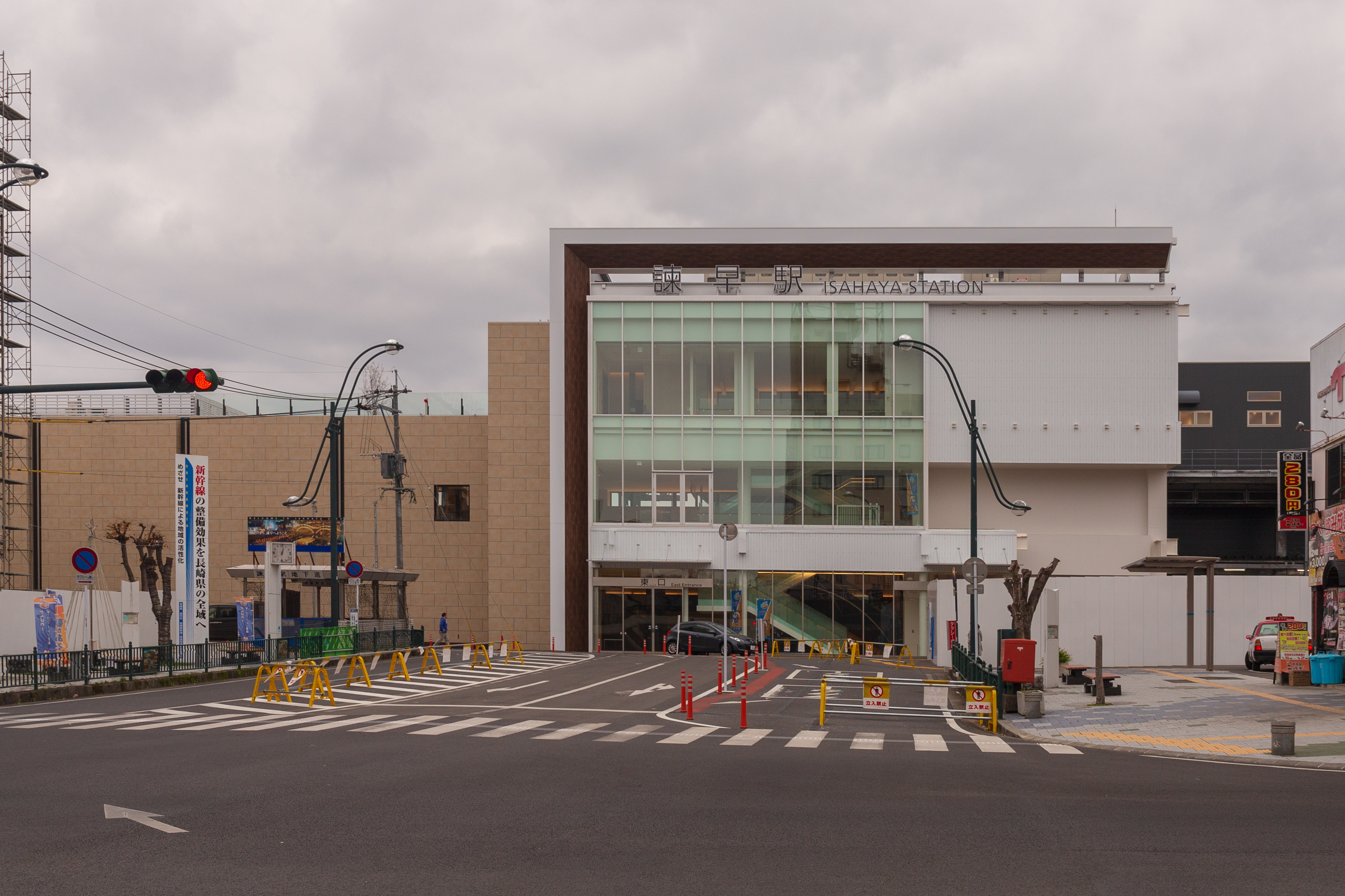 East side of Kyushu Railway Company (JR Kyushu) Isahaya Station in Isahaya City, Nagasaki Prefecture, Japan